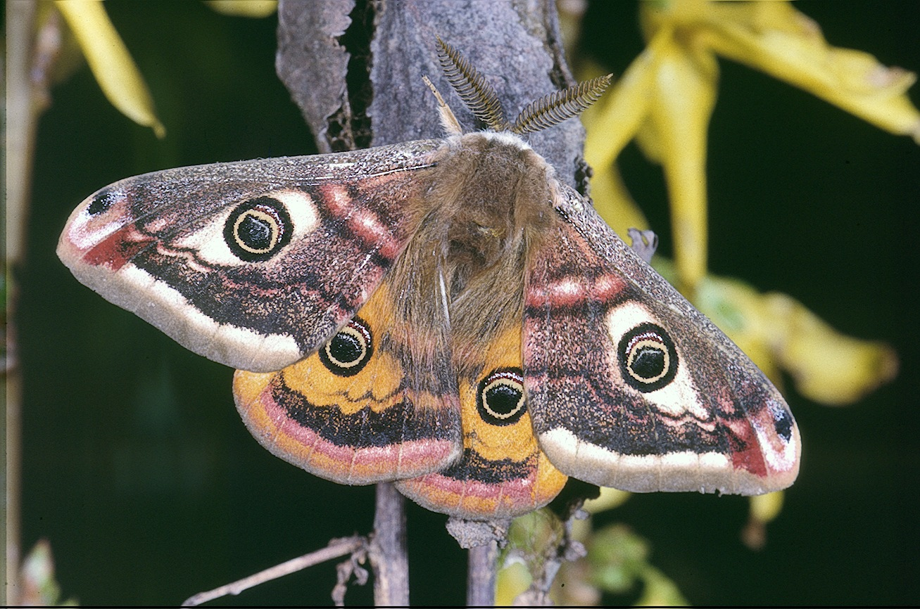 Butterfly moth SATURNIA PAVONIA (french:Petit paon de nuit) photographed in breeding cage. Sex male. Picture taken in Calvados, France.